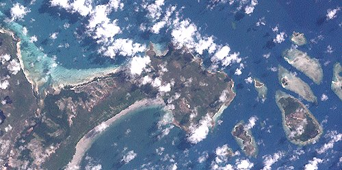 Cape in the north-east of Australia, Queensland, with some islands